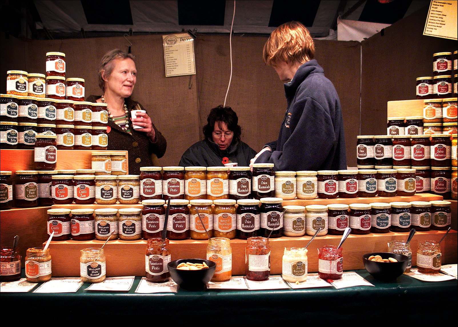 Pickles in London food fair